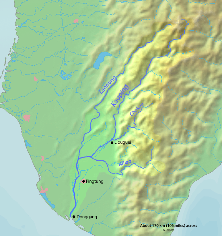 Map of the Kaoping River watershed which drains most of Southern Taiwan into the Taiwan Strait.